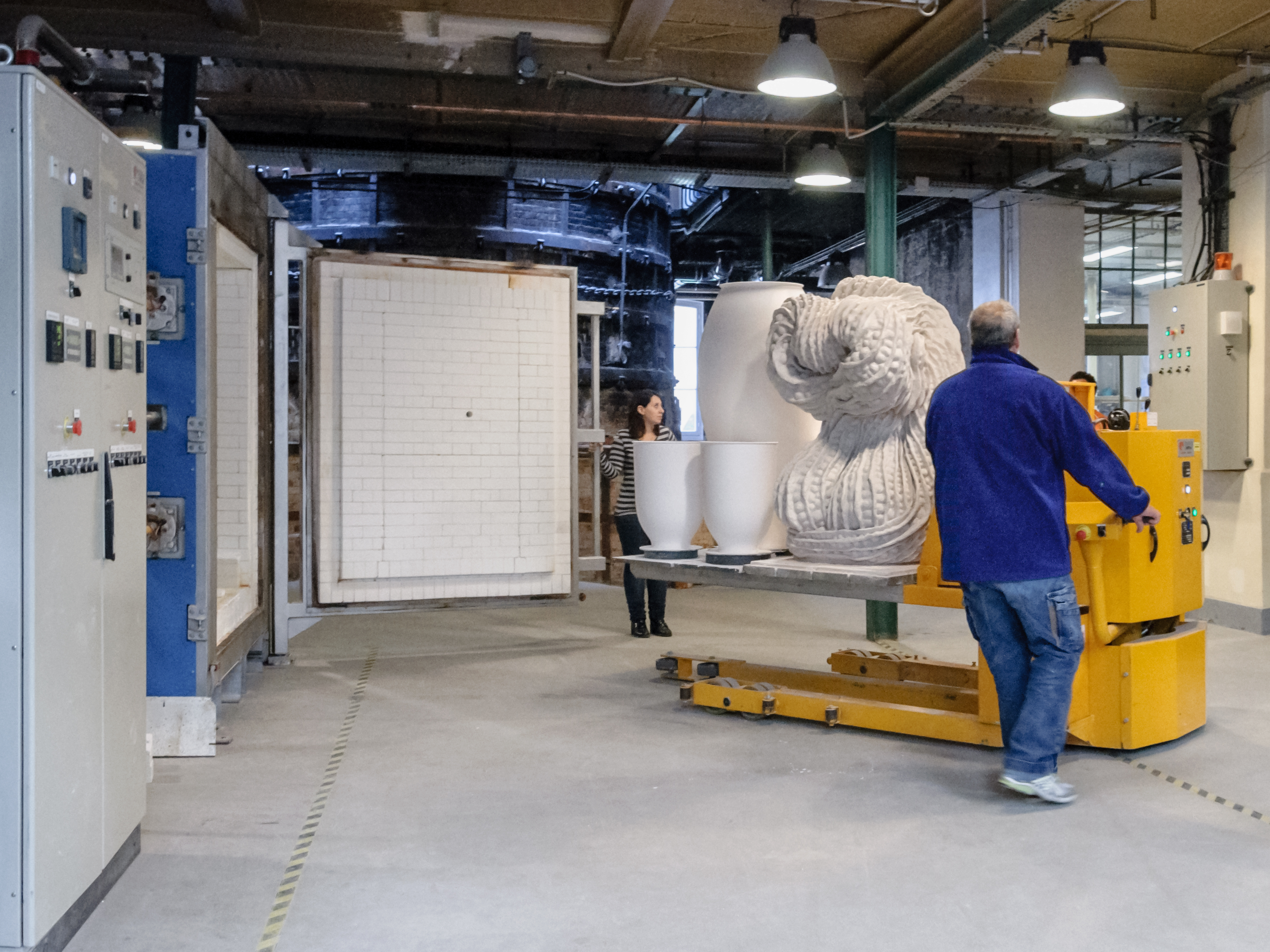 Kilns of the manufacture nationale de Sèvres, preleminary firing.